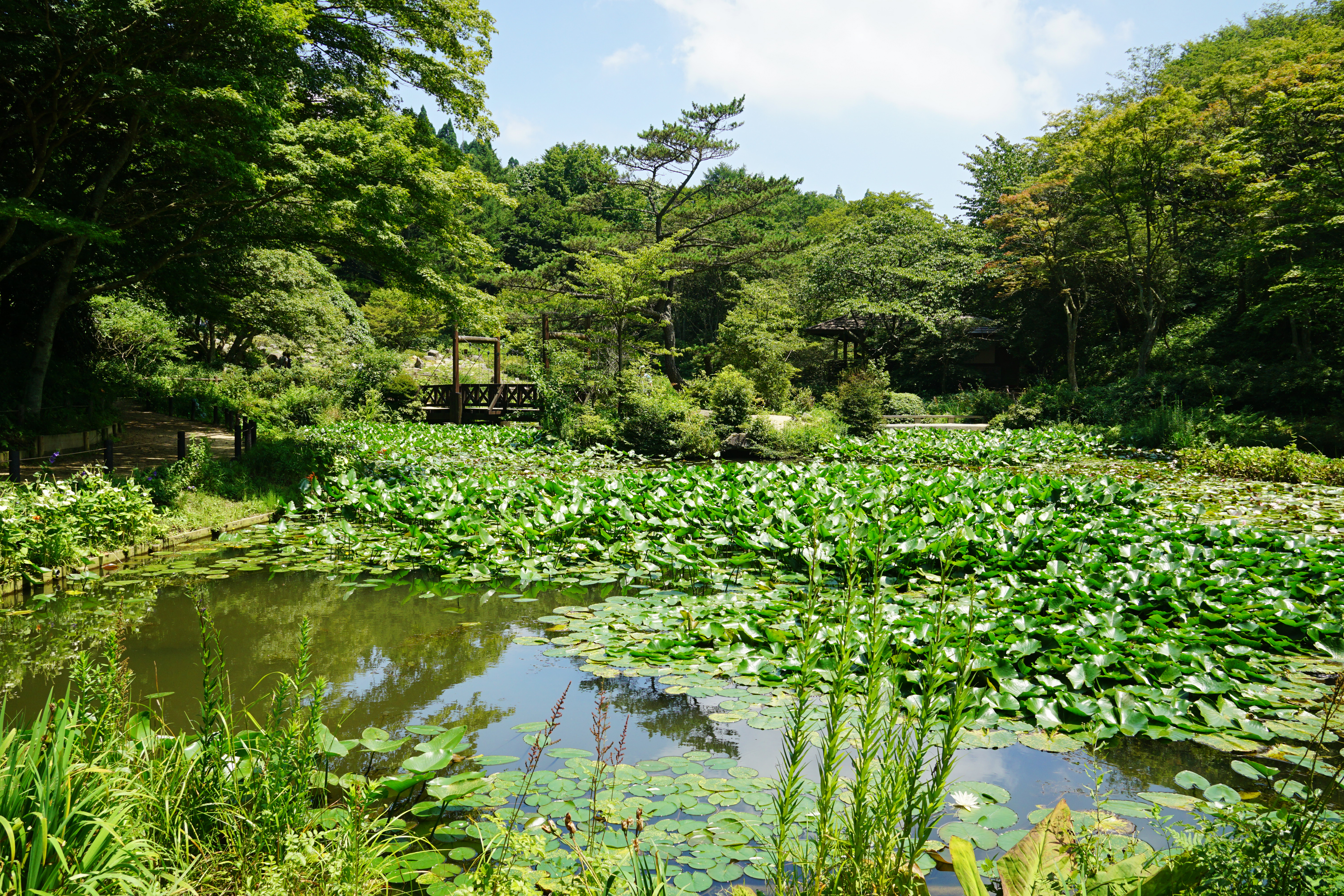 Rokkō Alpine Botanical Garden in Kobe, Hyogo prefecture, Japan